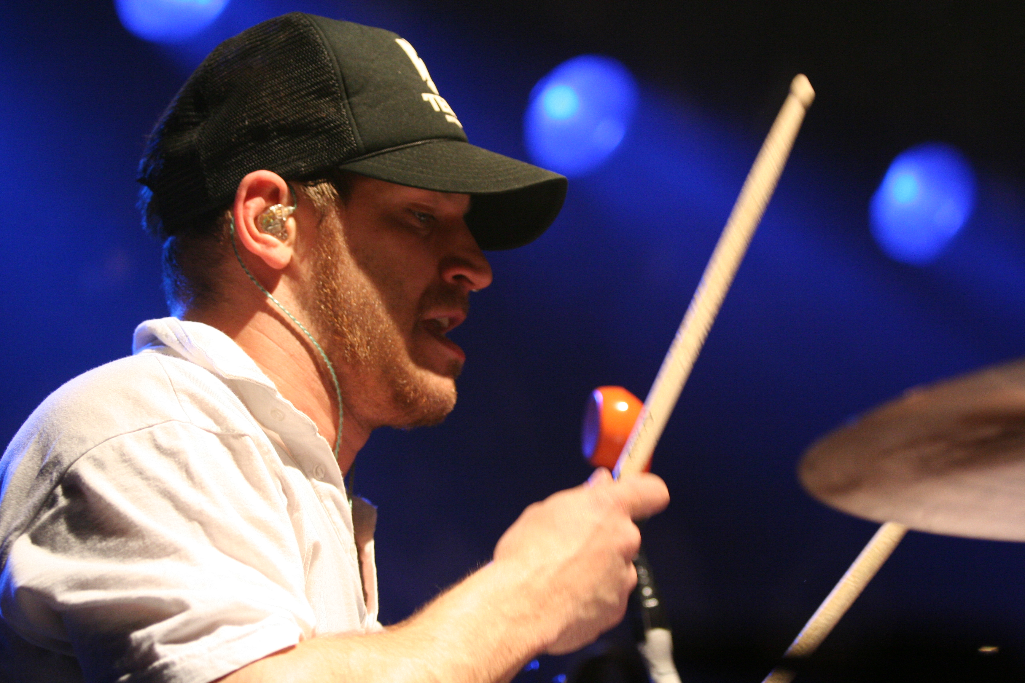 Florian Weber on a concert in Schrobenhausen